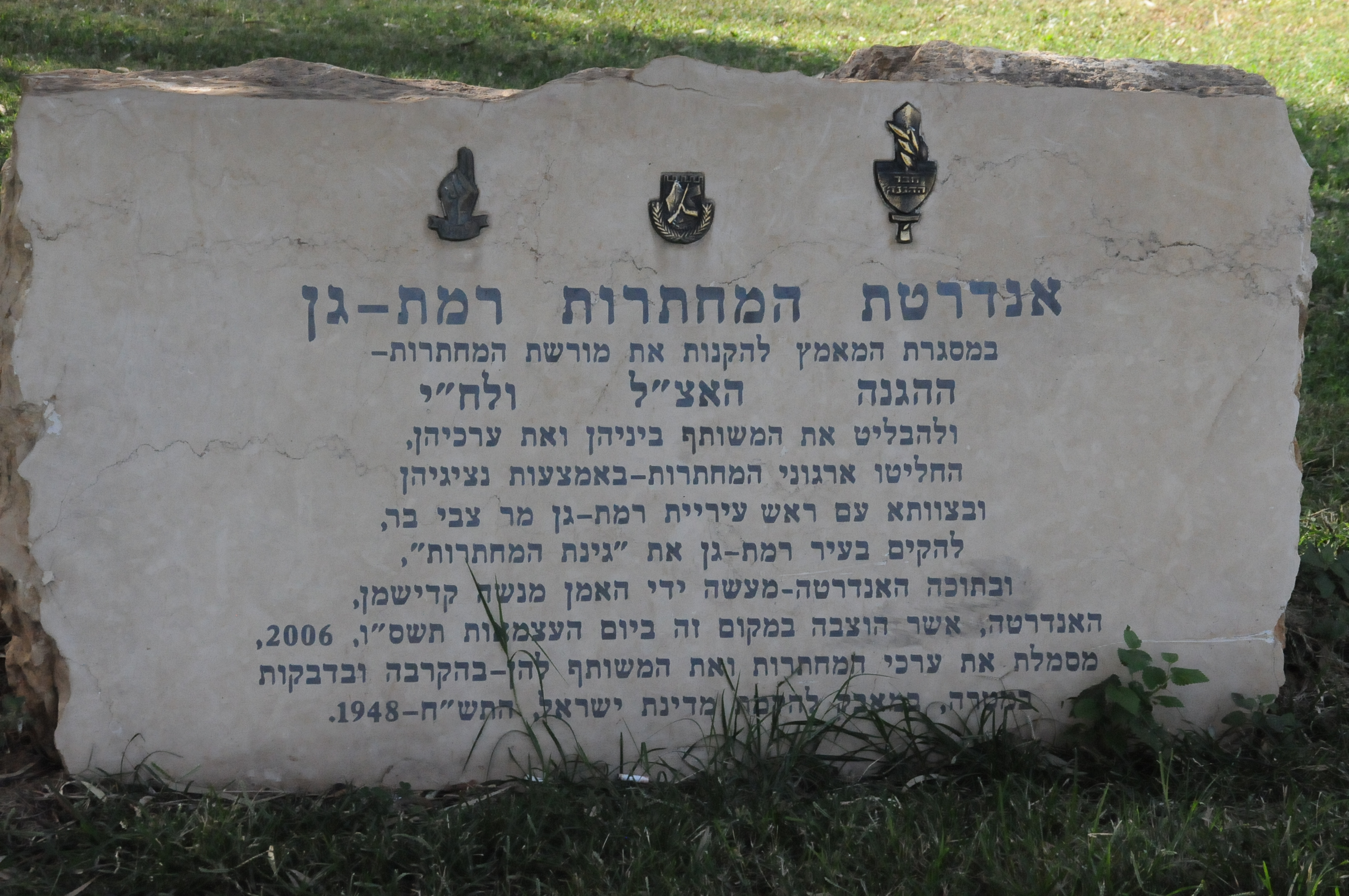 Geography of Israel